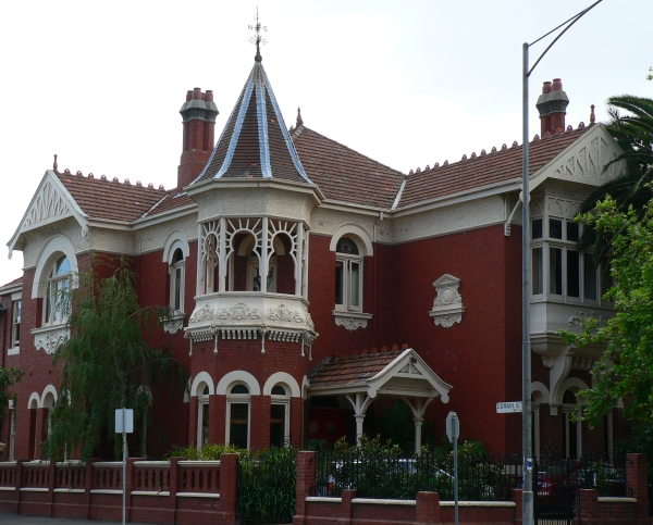 Queen Anne style mansion in Domain Street. South Yarra, Victoria